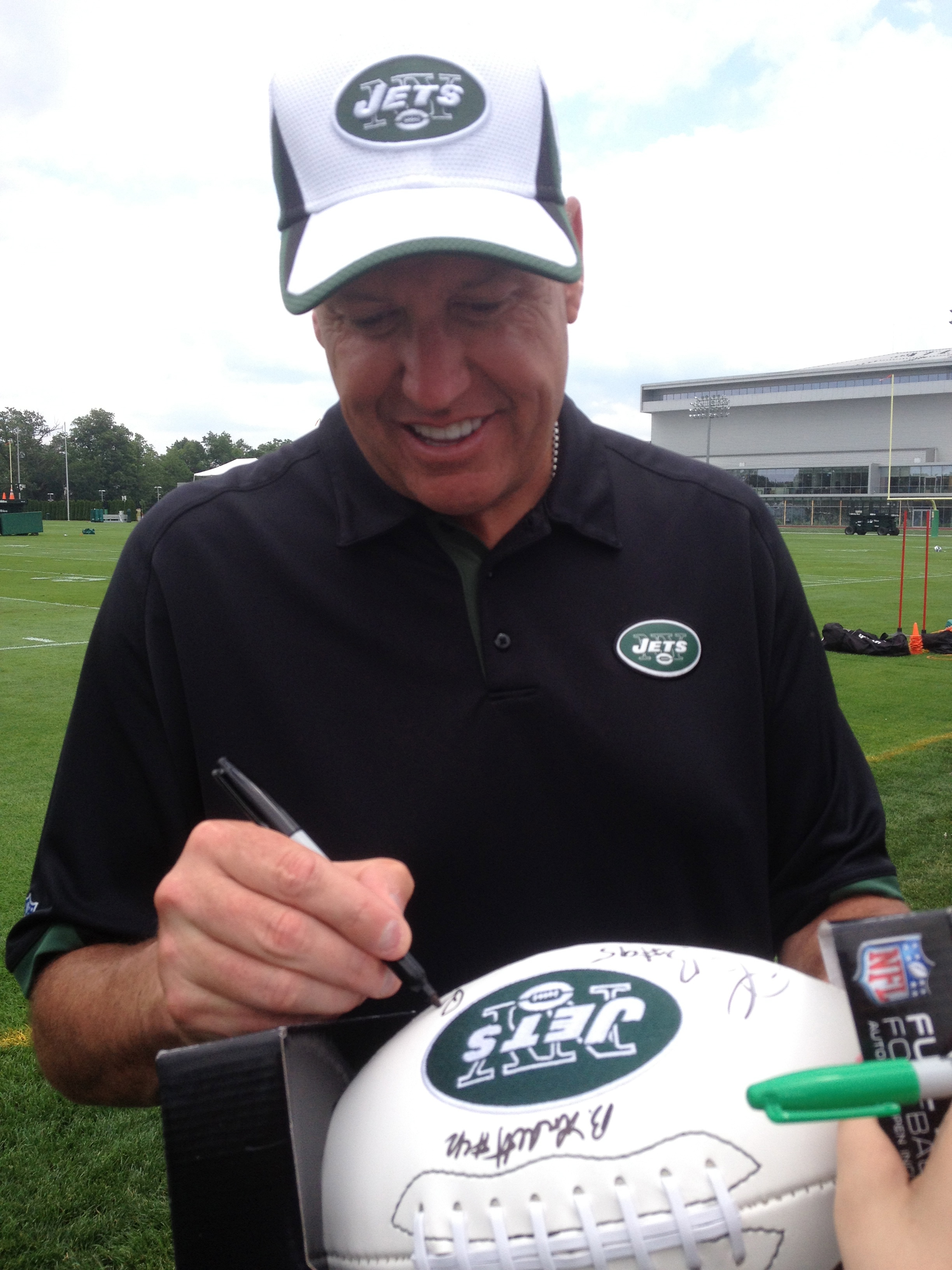 Rex Ryan signing autographs at New York Jets Mini Camp in Florham Park, NJ, on June 11, 2013.